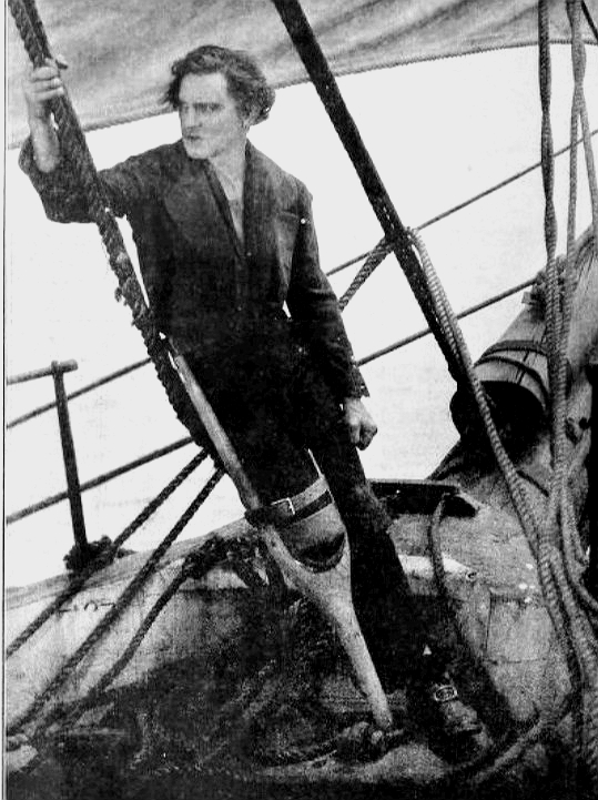 Scene from the 1926 film The Sea Beast.